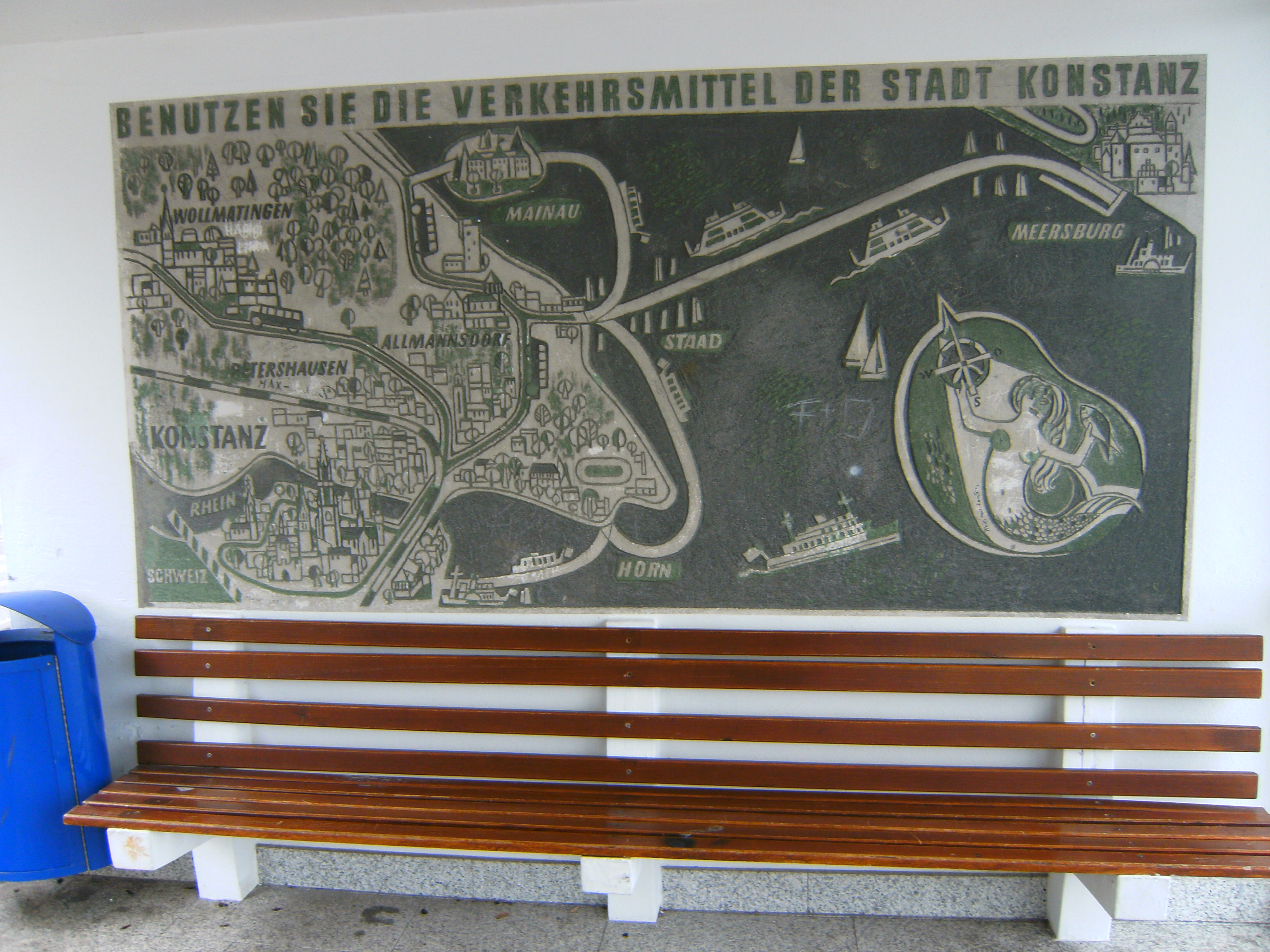 Meersburg, Germany. Fährehafen: Sgraffito by paintor Hans Sauerbruch. Scenary: View on traffic lines in Konstanz at Bodensee. Ferry to Meersburg.